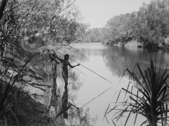 Kakatu natives spearing fish in a billabong (East Alligator River, Northern Territory).